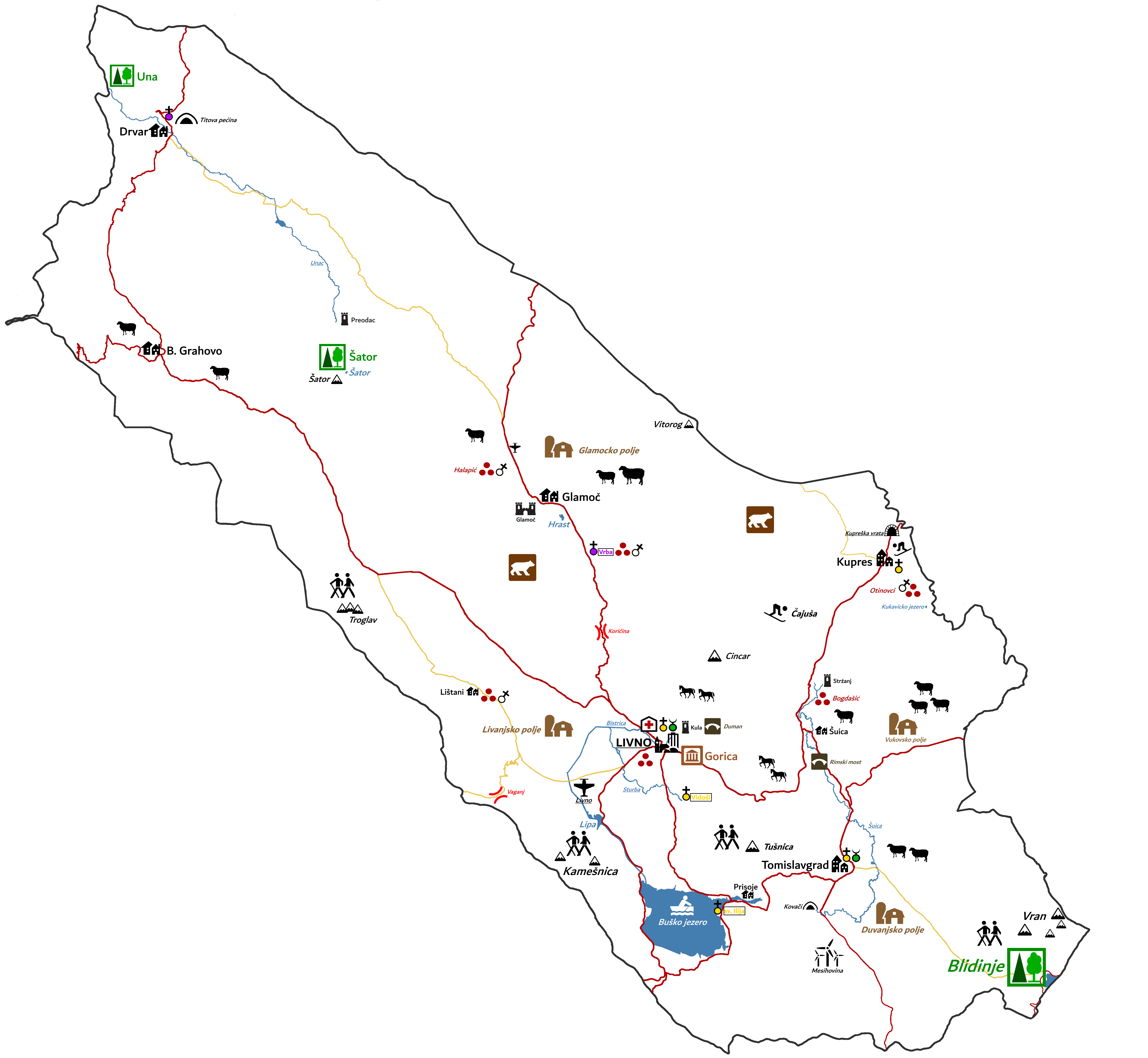 Canton 10 (Canton of Herceg-Bosna) Touristic Map